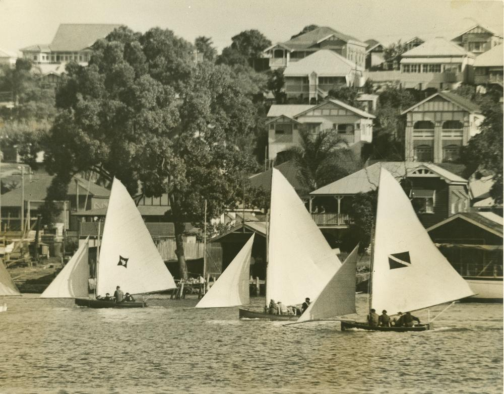 Sailboat racing at Hamilton Reach on the Brisbane River. Dwarfed by Bulimba Hill, the 12 foot skiffs practice on the Hamilton Reach. Left to right: Jaclen, Hurricane and Resolve. (Description supplied with photograph).